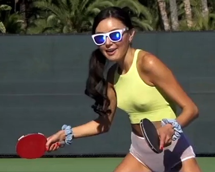 Korean professional model and table tennis player Soo Yeon Lee